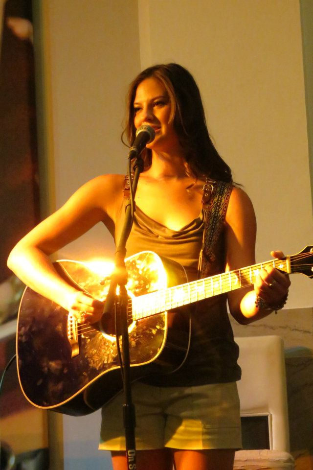 Ayla Brown in concert